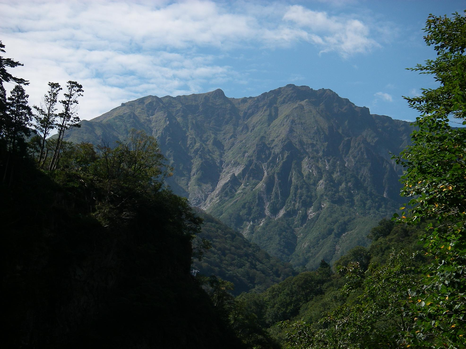 Mount Tanigawa as seen from the east by north in Gunma Prefecture, Japan.